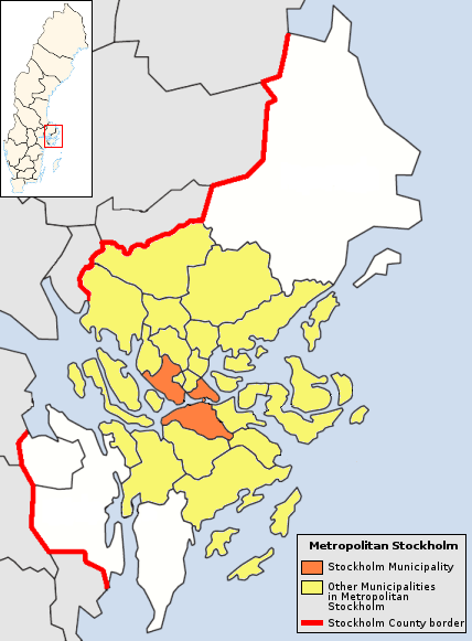 Map of Greater Stockholm (Metropolitan Stockholm) before the expansion in 2005.